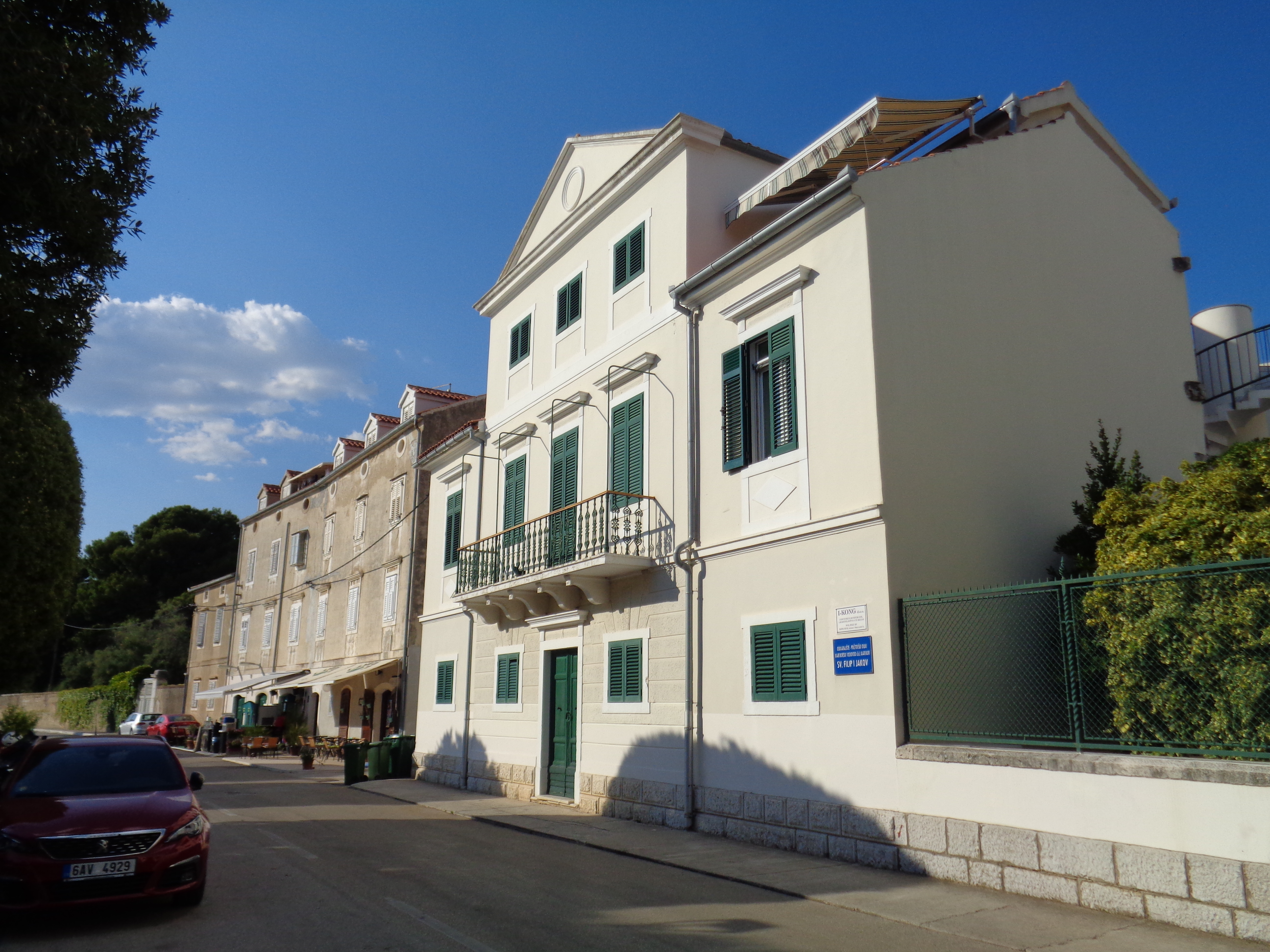 Sveti Filip i Jakov, Zadar County, Croatia